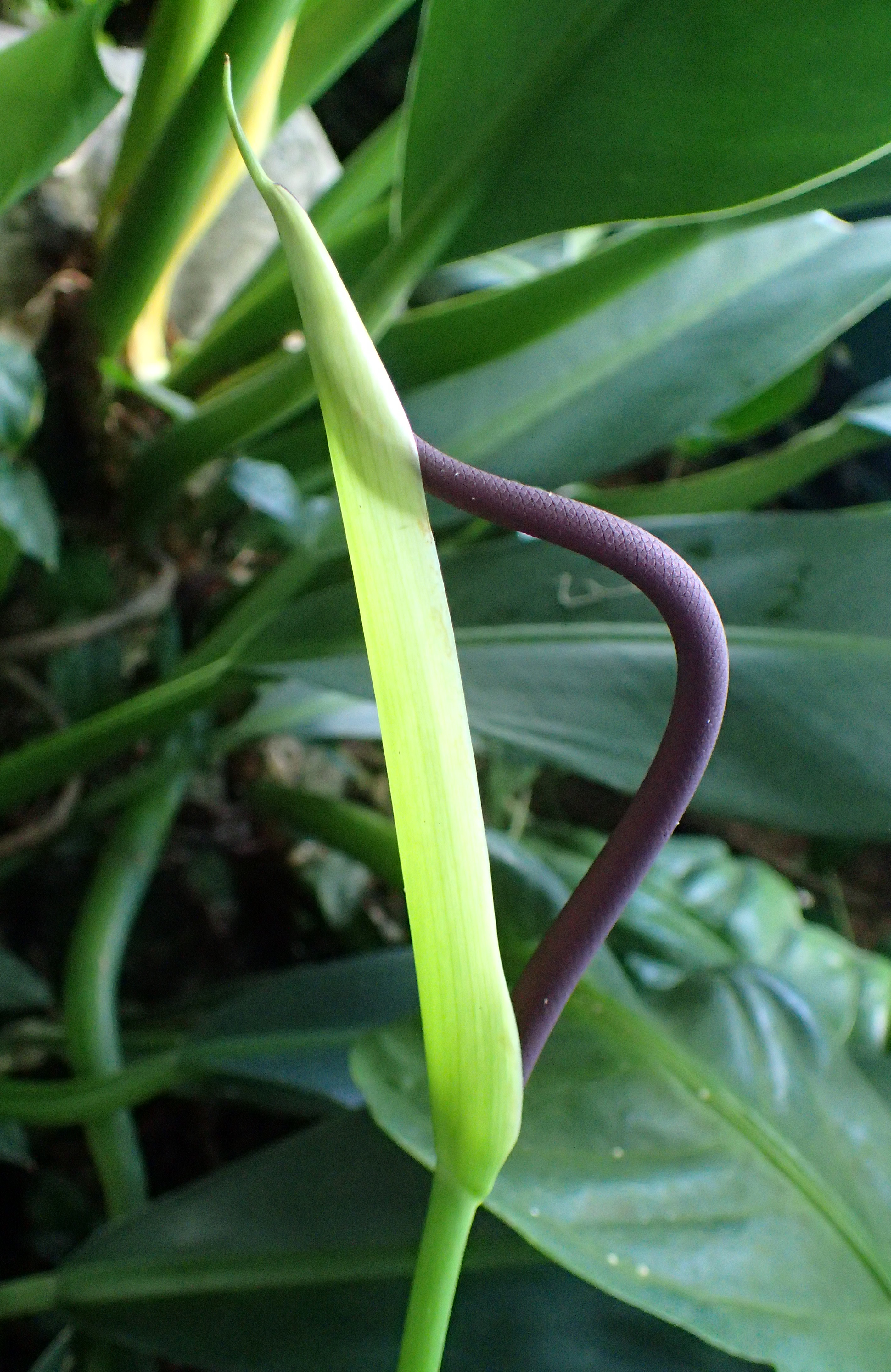 Anthurium acaule in the New York Botanical Garden